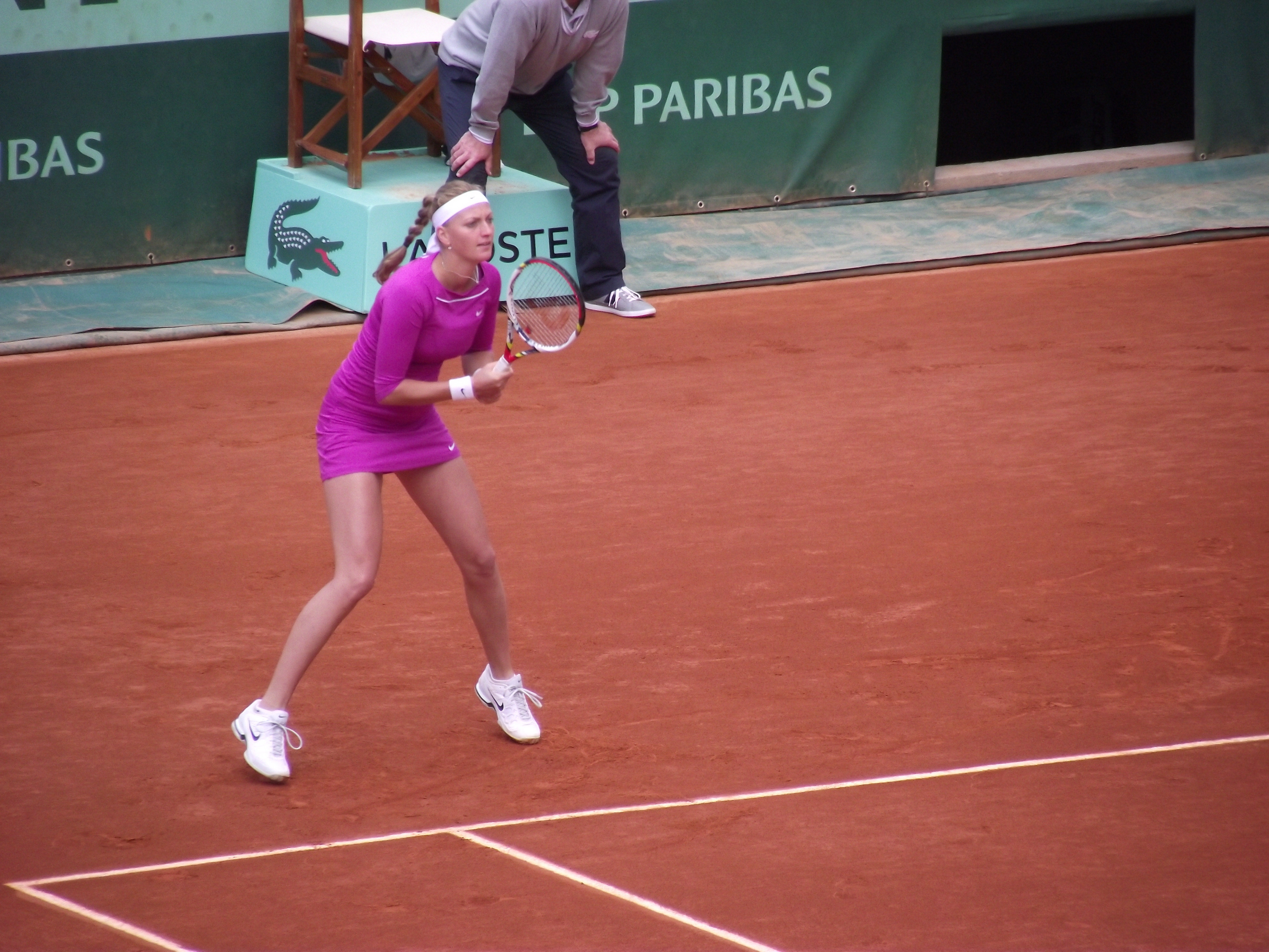 Czech Petra Kvitova at 2012 French Open. 2012 Roland Garros, Paris, France.